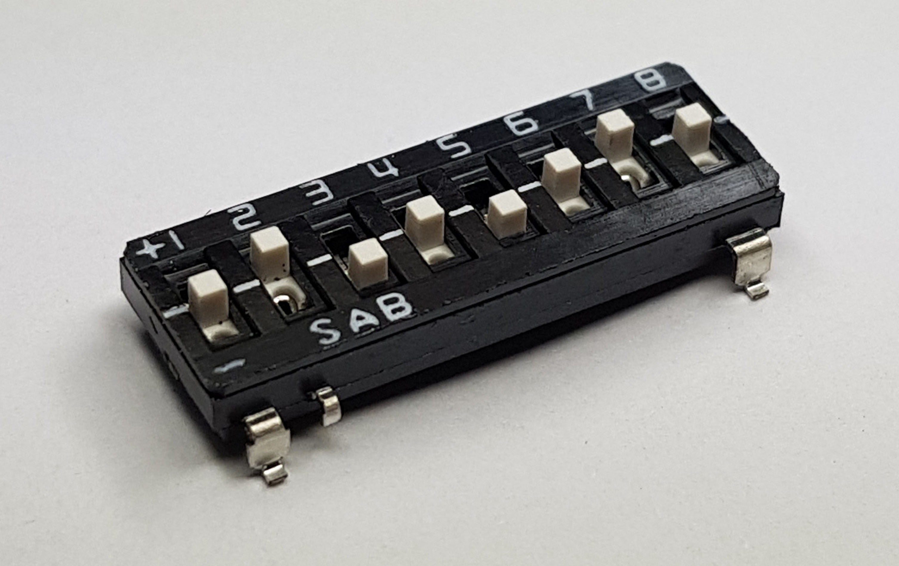 Sab Tri state type DIP switch